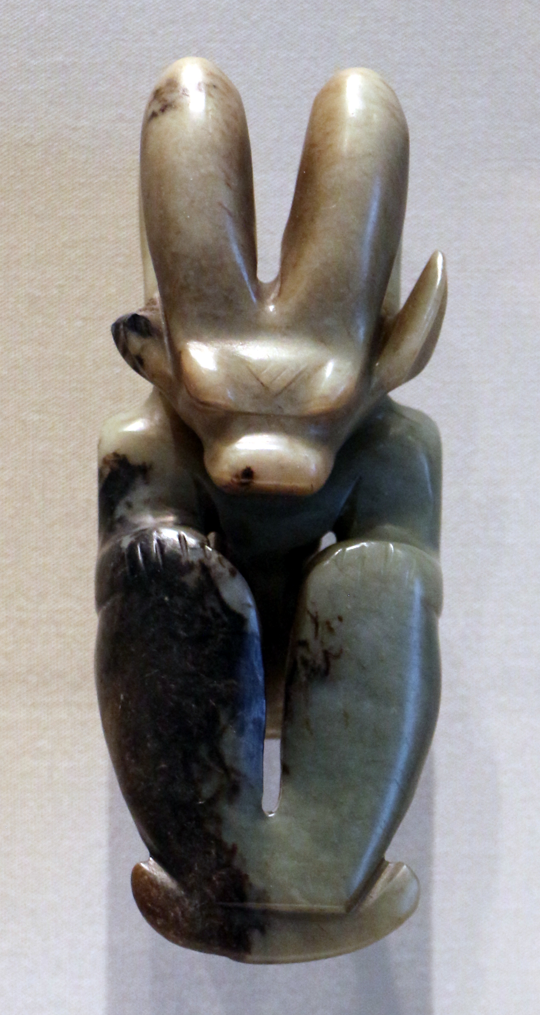 Chinese art in the Cleveland Museum of Art